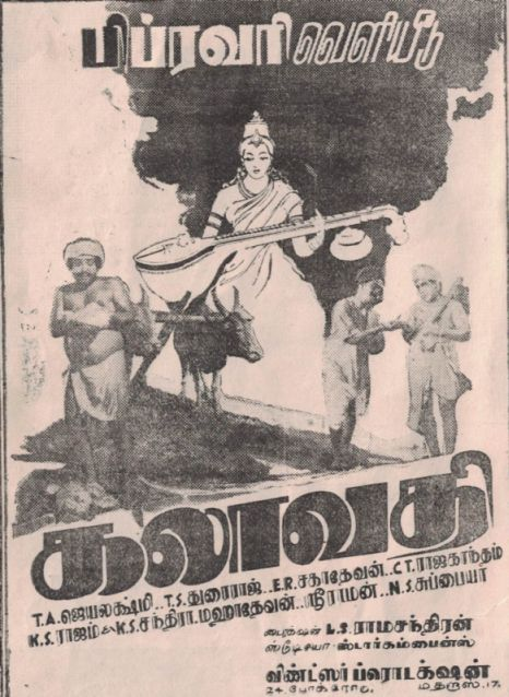 Poster for the 1951 South Indian Tamil film Kalavathi